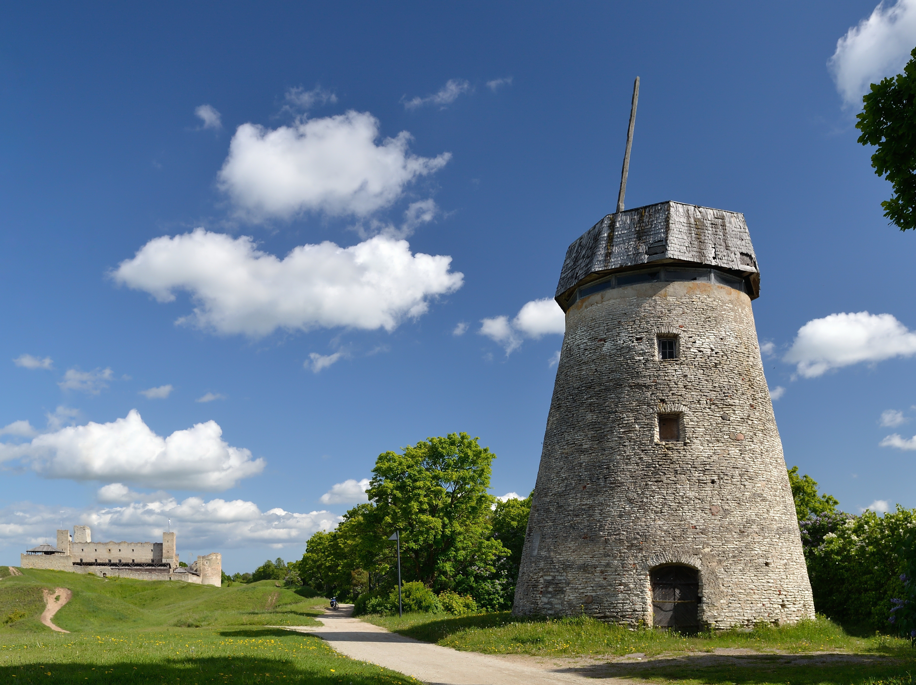 Vallimäe windmill, built in 1797-1798